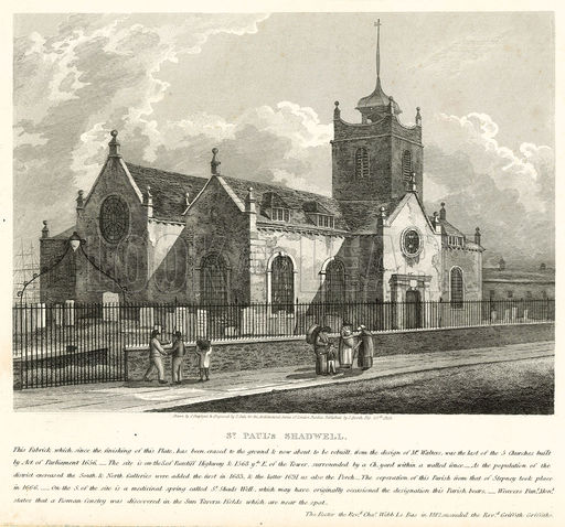 St Paul's parish church, Shadwell, London, seen from the northeast, in an engraving published 20 February 1819